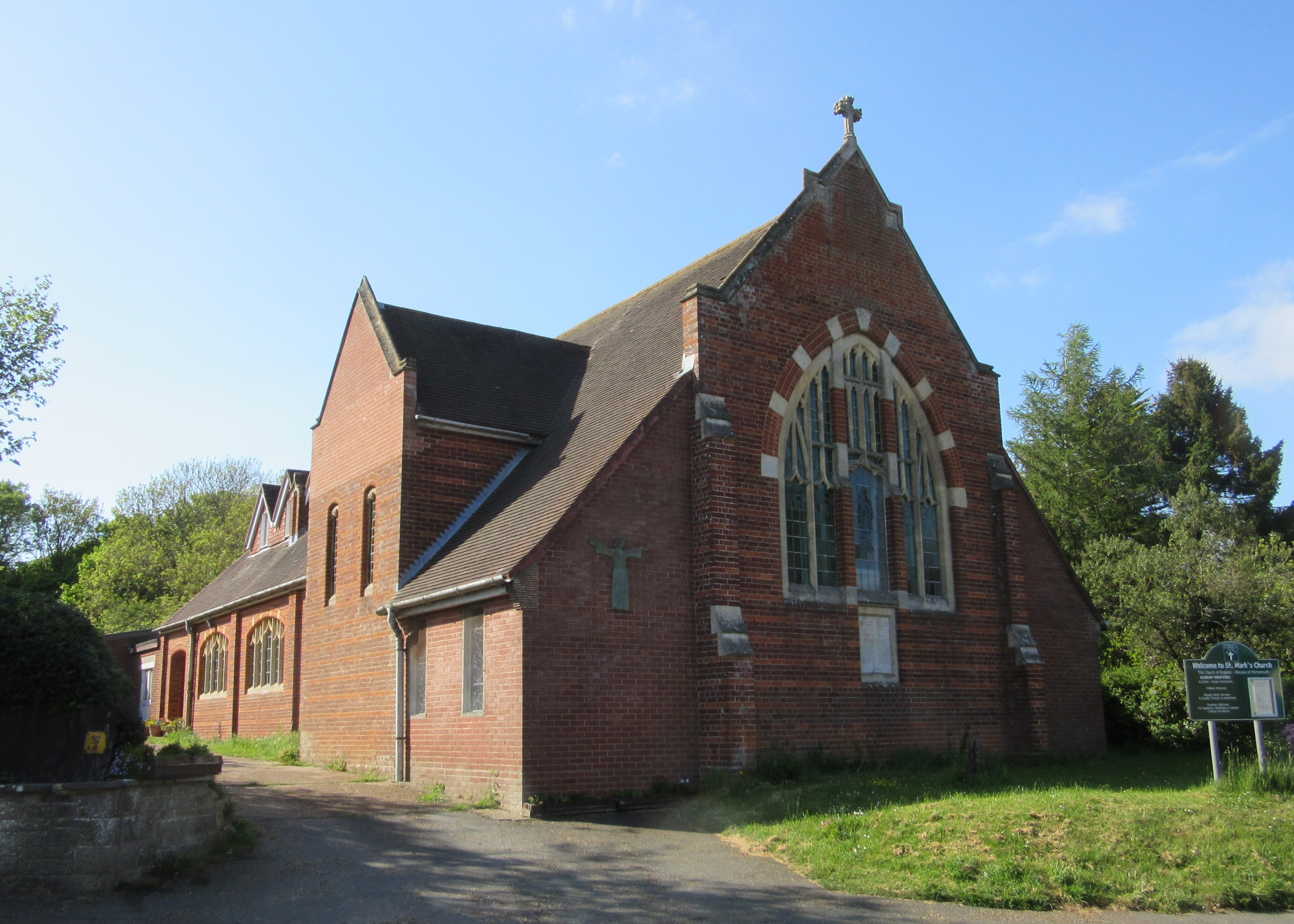 St Mark's Church, Station Road, Wootton, Isle of Wight, England. One of two Anglican parish churches in the village of Wootton.